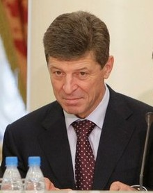 Dmitry Kozak, a Russian politician.